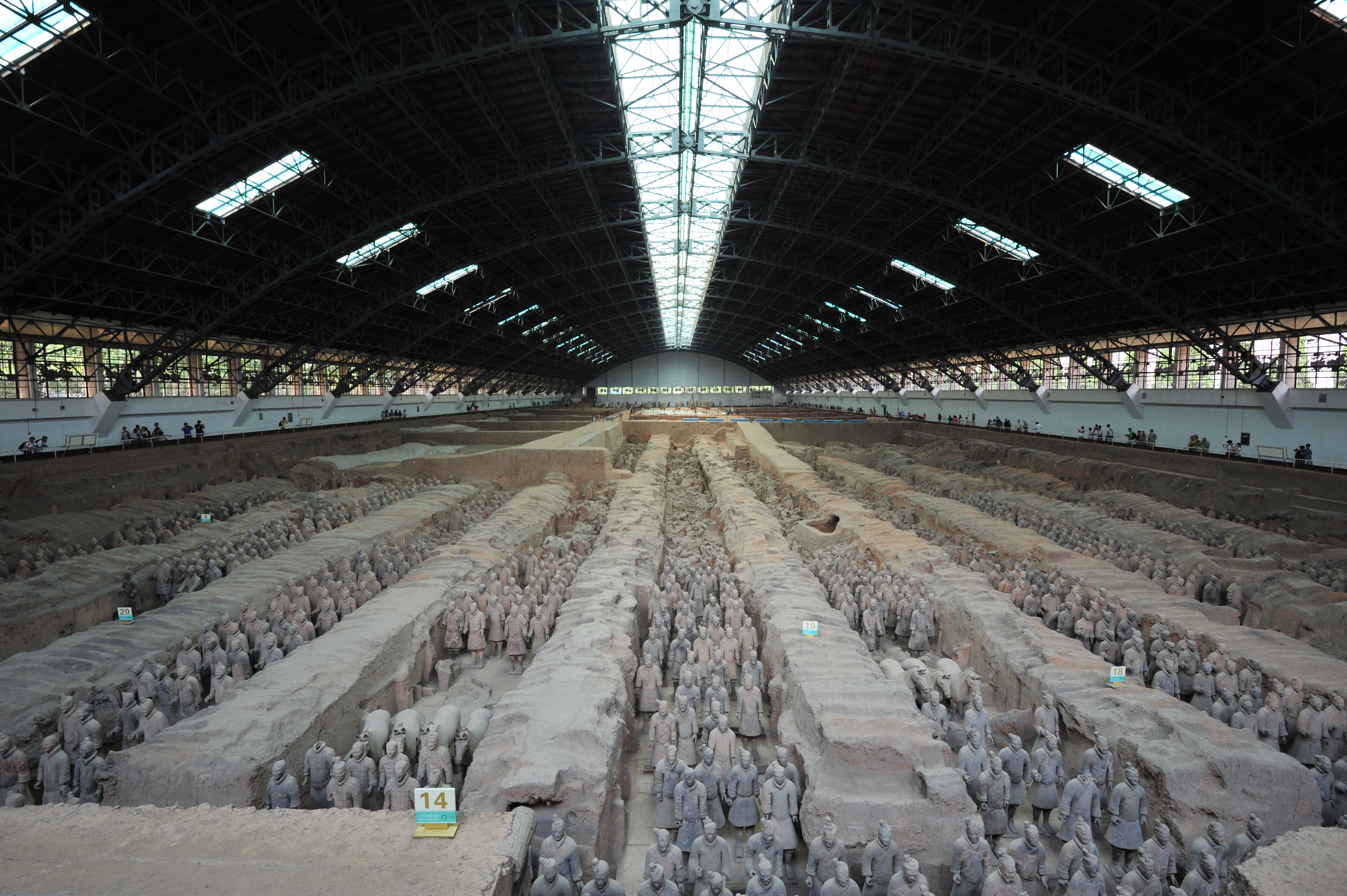 qin shi huang terracotta army xian china 2011 pit 1